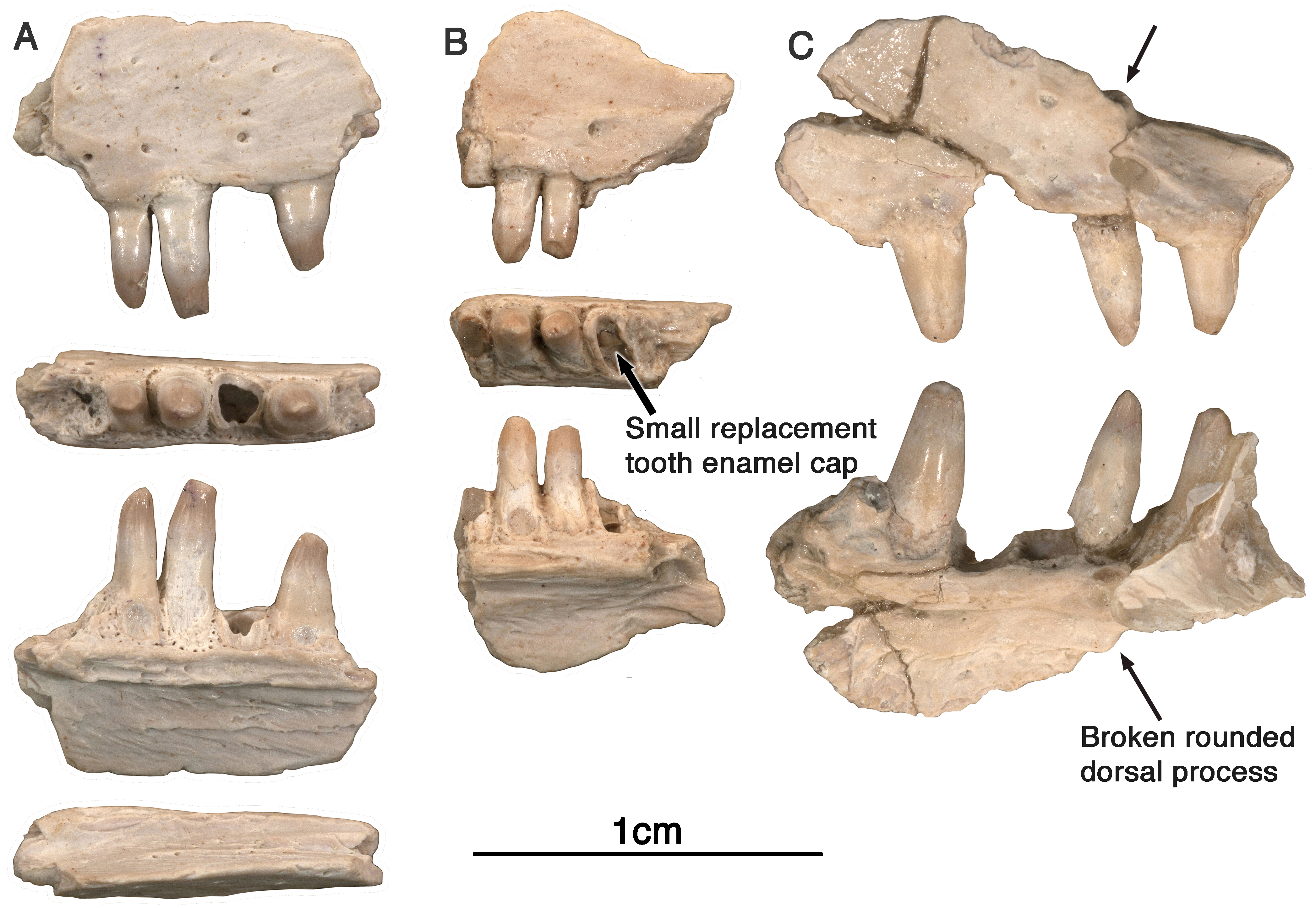 Arisierpeton simplex maxillae